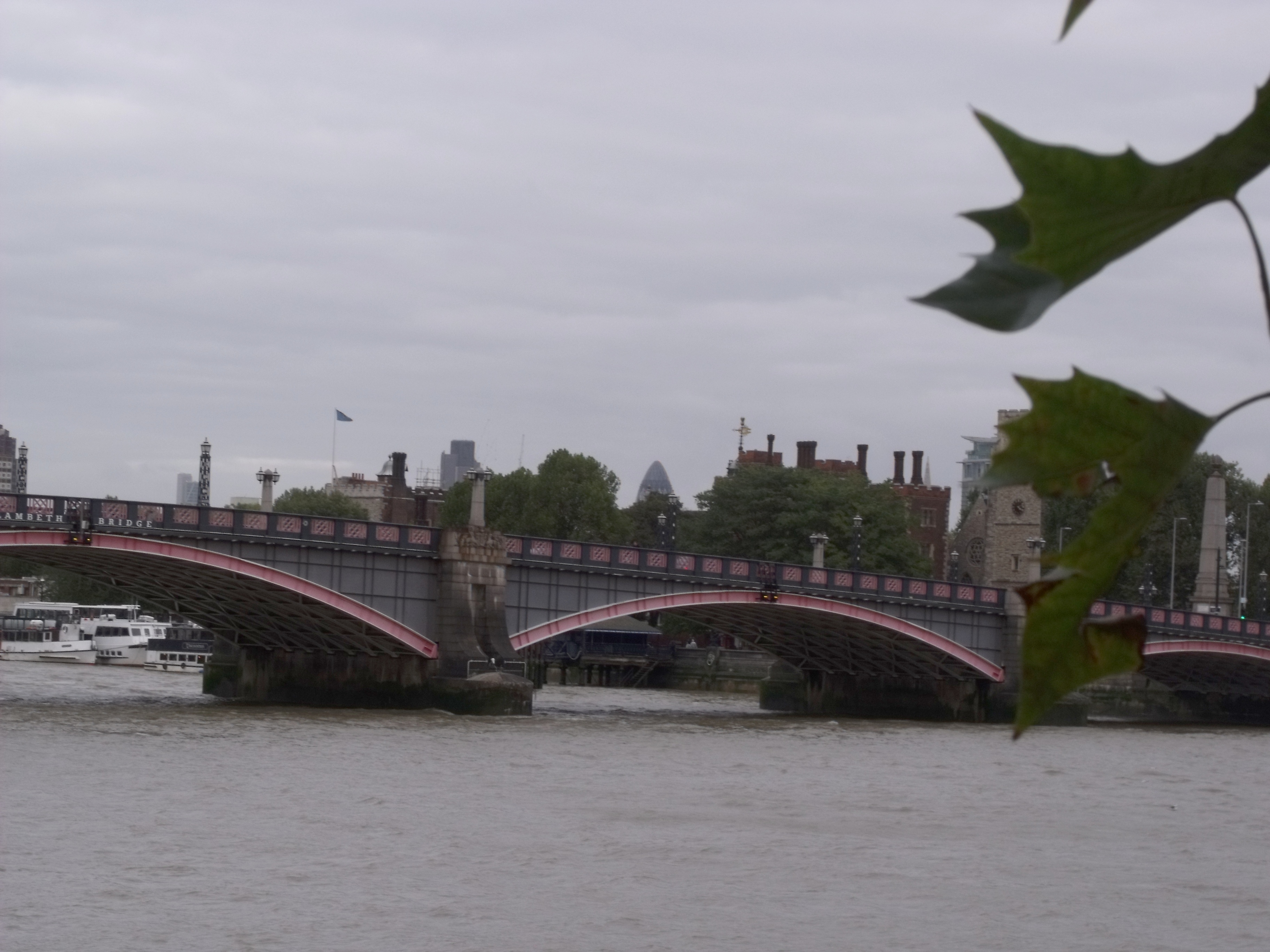 The following is the author's description of the photograph quoted directly from the photograph's Flickr page."This is the Lambeth Bridge, crossing the River Thames in London.It is for road traffic and is also a footbridge crossing.It was declared a Grade II listed structure in 2008, to preserve it's special character from unsympathetic development.The current structure opened in 1932 by King George V, is a five-span steel arch bridge, designed by engineer Sir George Humphreys and architect Sir Reginald Blomfield, was built by Dorman Long.It formerly had four lanes for traffic, now now has three as one is a bus-lane for traffic flowing east.it has obelisks at either end, surmounted by pineapples, as a tribute to Lambeth resident John Tradescant the younger who grew the first pineapple in Britain.To the right is the Lambeth Palace. Further back is The Gherkin (30 St Mary Axe). "